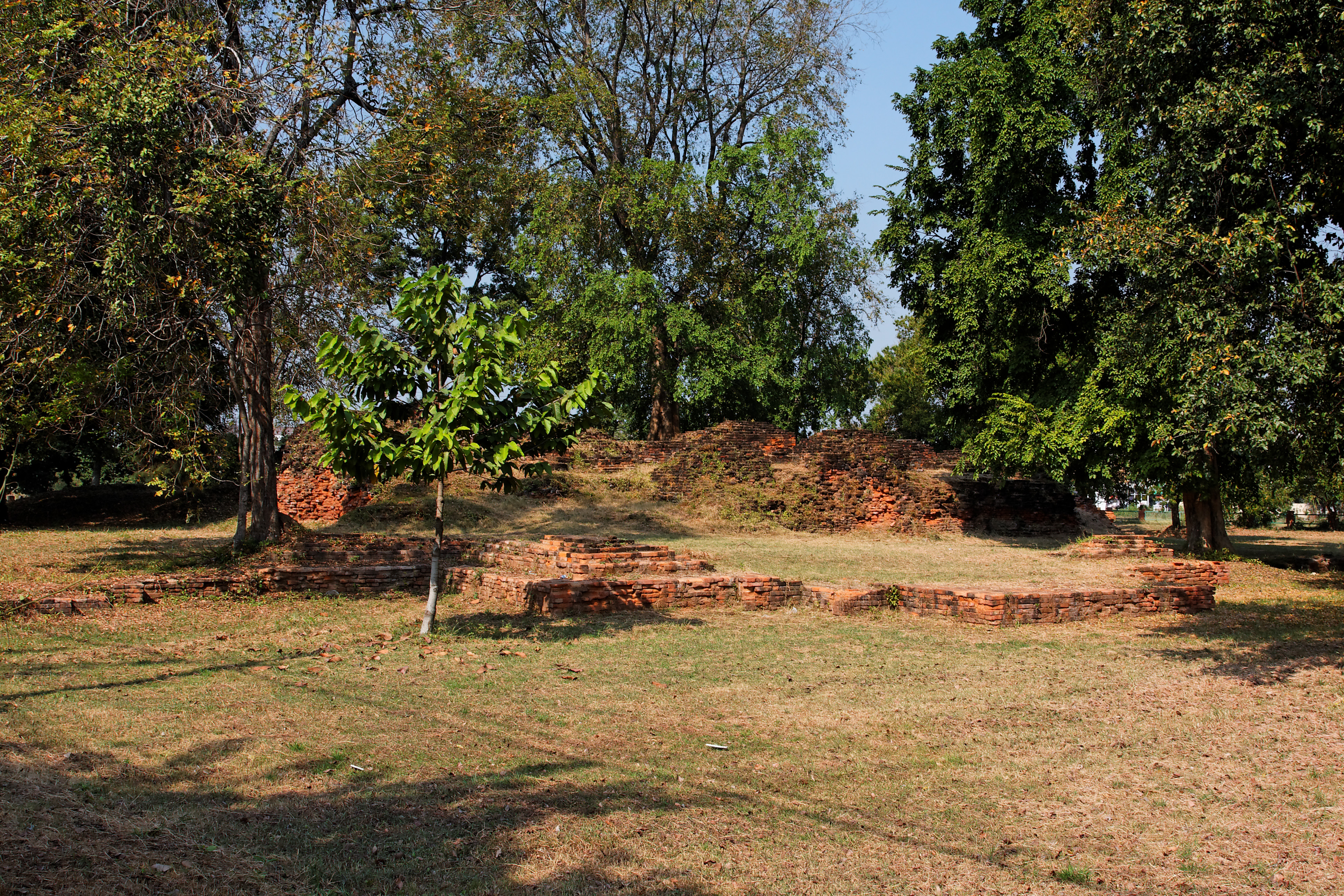 Wat Phra Men (Wat Phra Meru) is a Dvaravati temple located in Nakhon Pathom